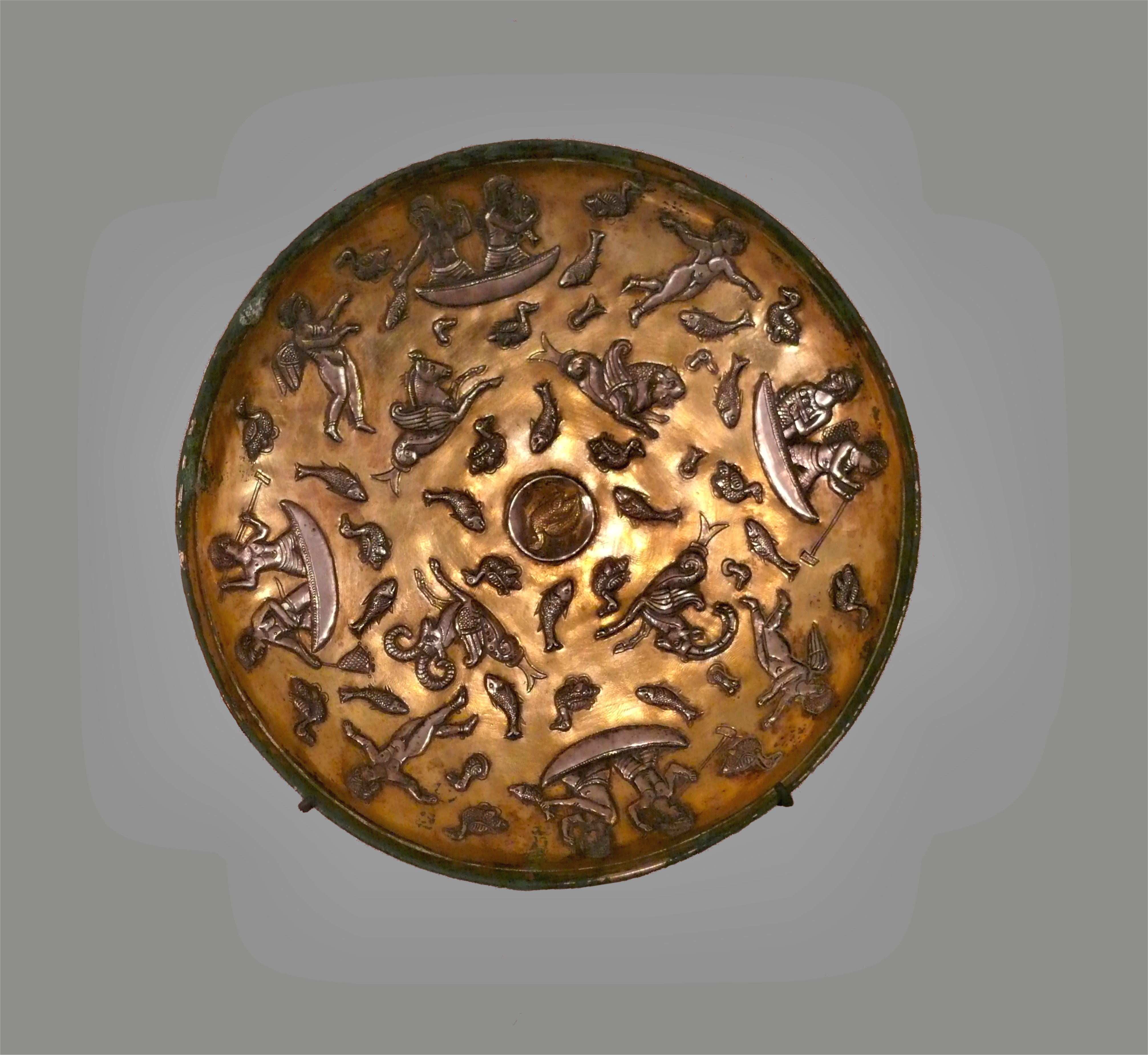 Gold and silver plate of the Sassanian era. (Museum Iran Bastan in Tehran, Iran) April 2008. The multiple figures decorating the plate are typical of the late sasanian art. Greco-roman influence can be seen through the winged figures testifying of the artistic exchanges with Roma then later, with Byzantium. The chimeric animals testify of a continuity with the art of the ancient Achaemenian Persian empire, and with the older mesopotamian art. The scene represents a fishing party wich shares great similarities with the one carved on Khosrow II's rock reliefs at Taq-e Bostan.